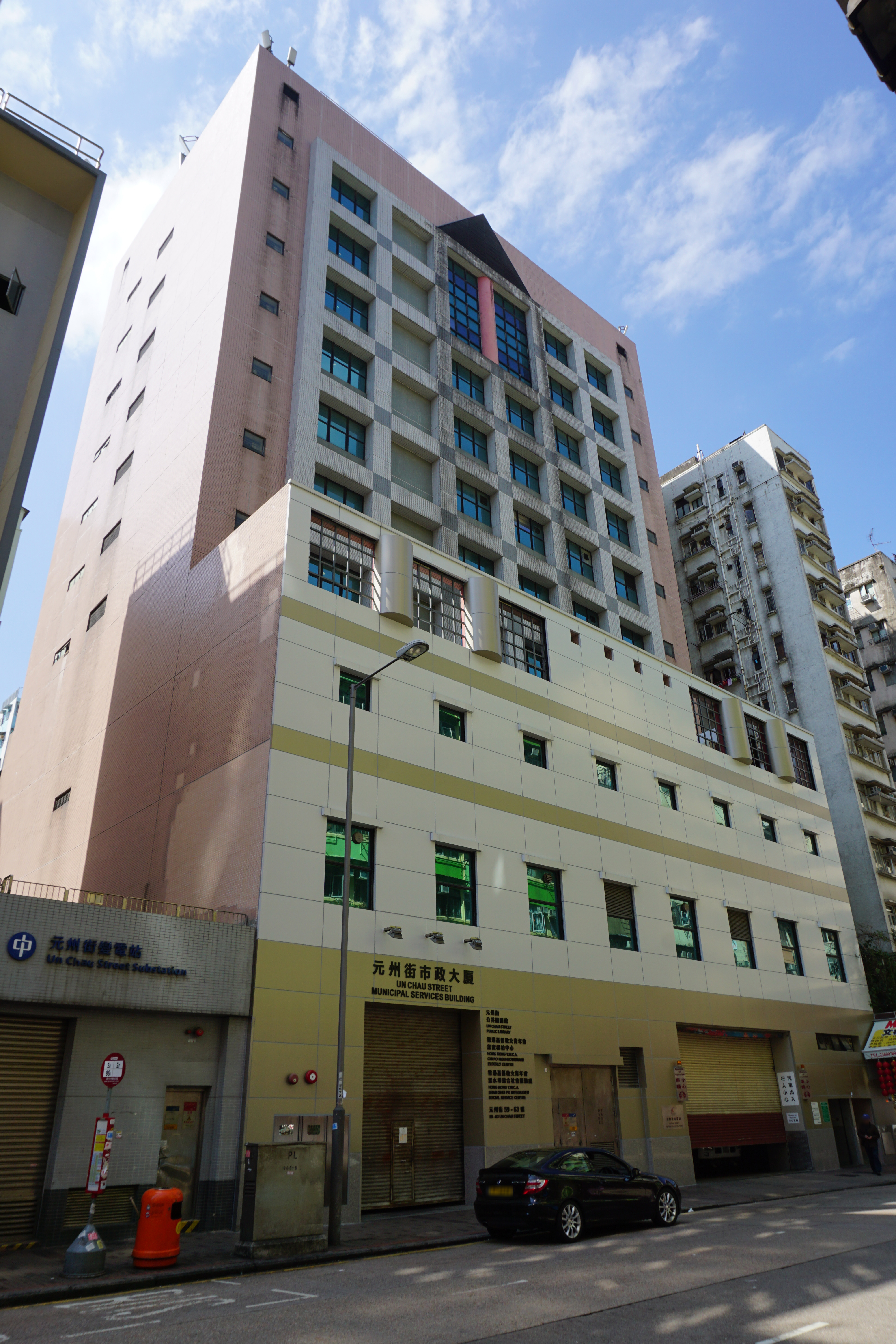 Un Chau Street Municipal Services Building in Sham Shui Po, Hong Kong.